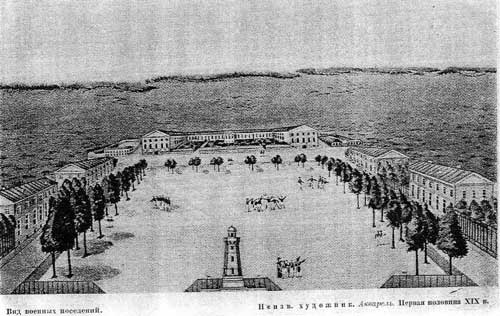 Krechevitsy, Military settlement, 19th century, Watercolor